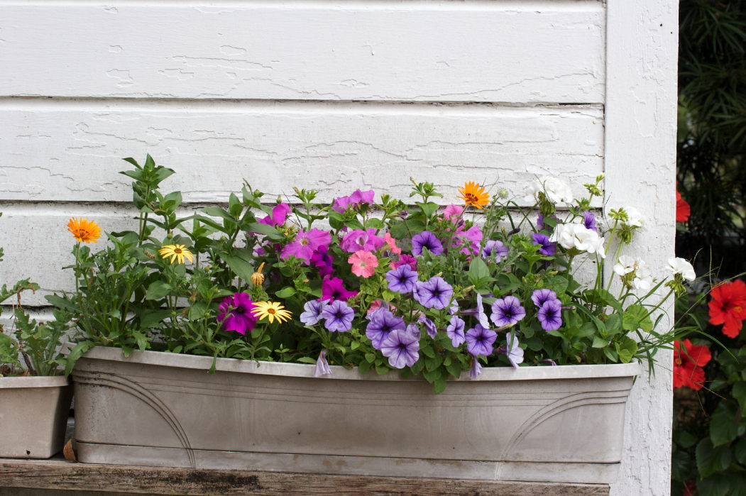 A window box of Dimorphotheca, Pelargonium (geranium), and petunias